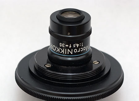 Macro-NIKKOR 35mm F4.5 with BR-16 RMS to M39 adapter & BR-15 M39 to F adapter